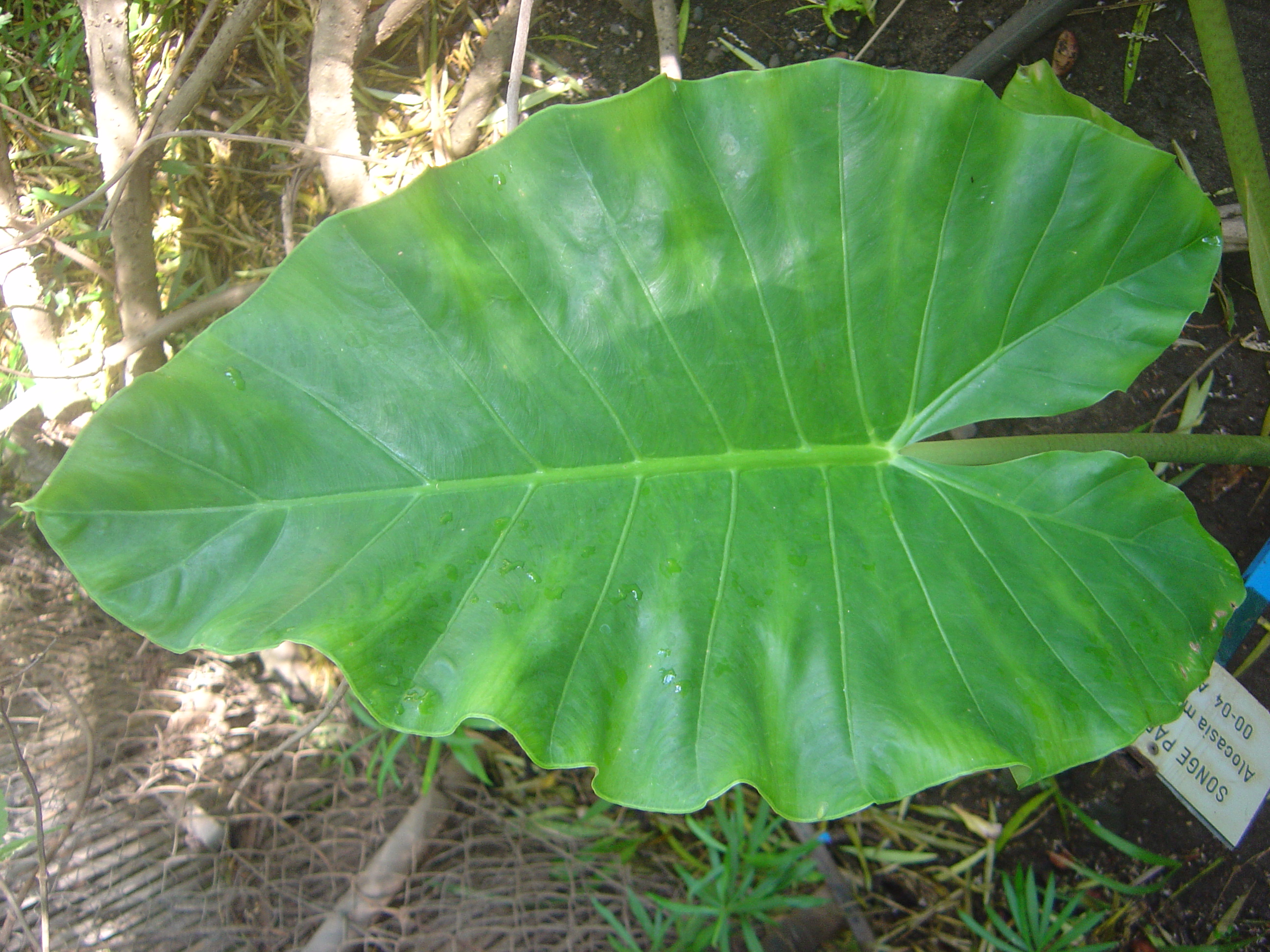 Alocasia macrorrhiza (Giant taro); Jardin d'Éden, Reunion Island